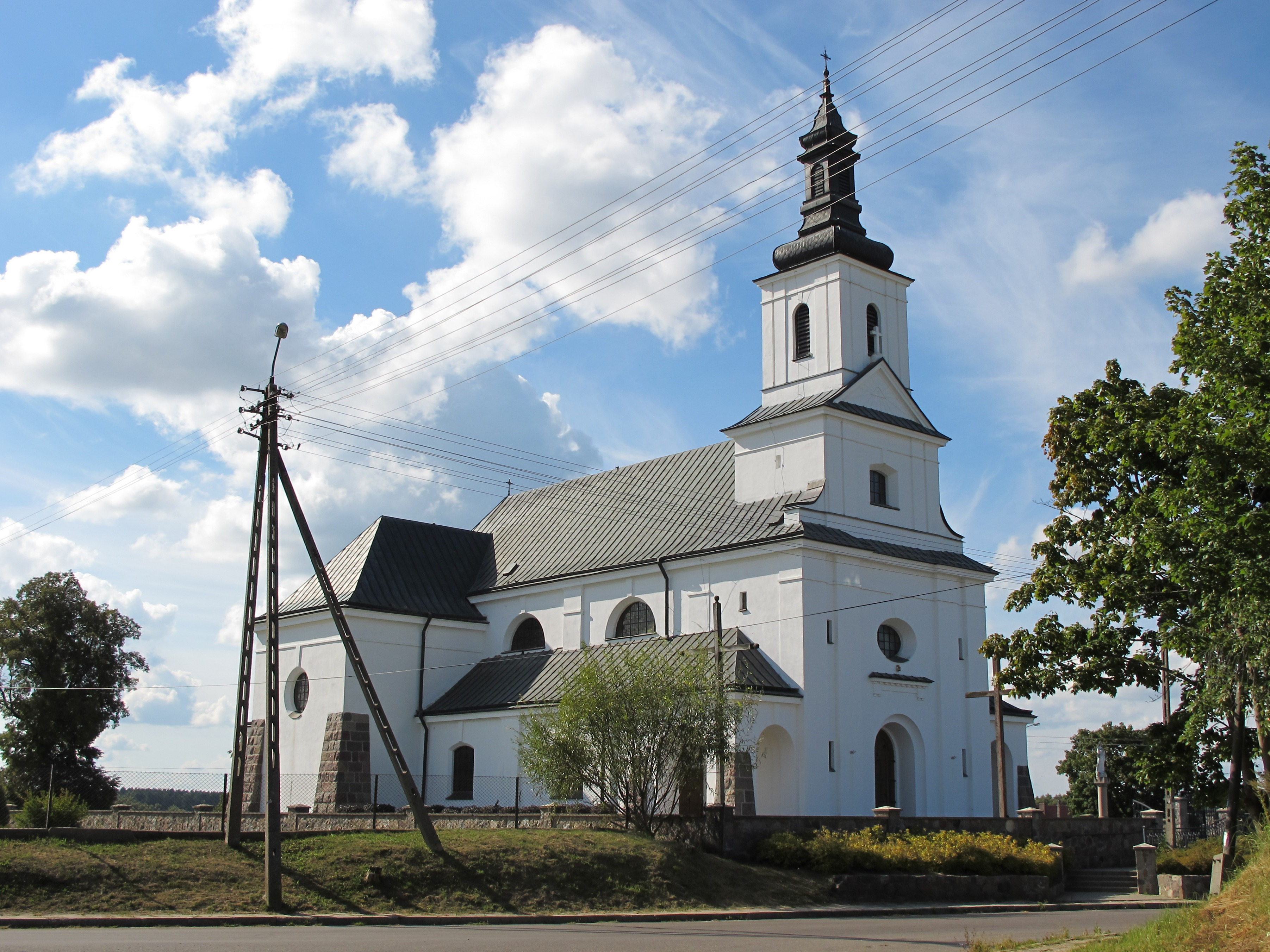 Saint Stanislaus bishop and martyr of Szczepanów church by Brańska 4 street in Topczewo, gmina Wyszki, podlaskie, Poland